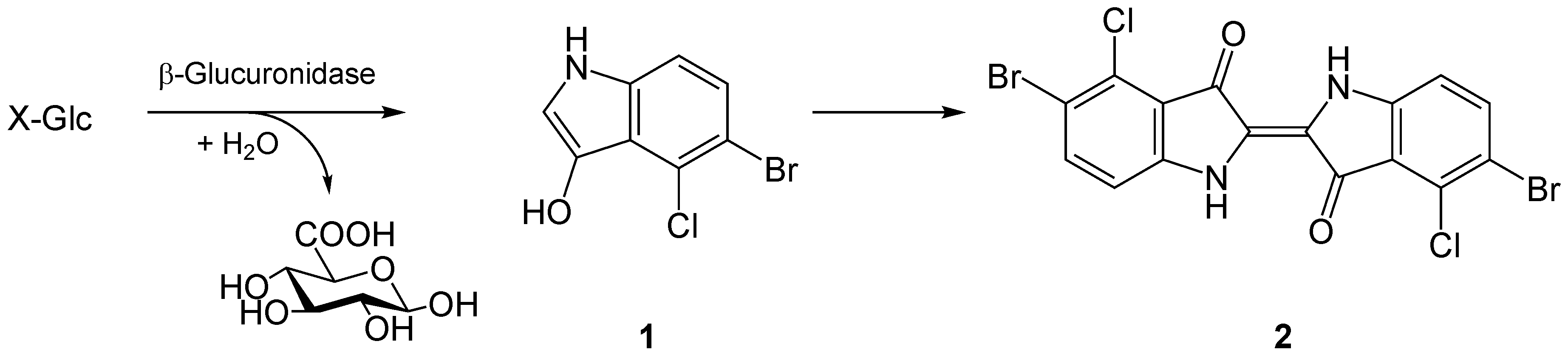 Reaction of the X-Glc by β-Glucuronidase